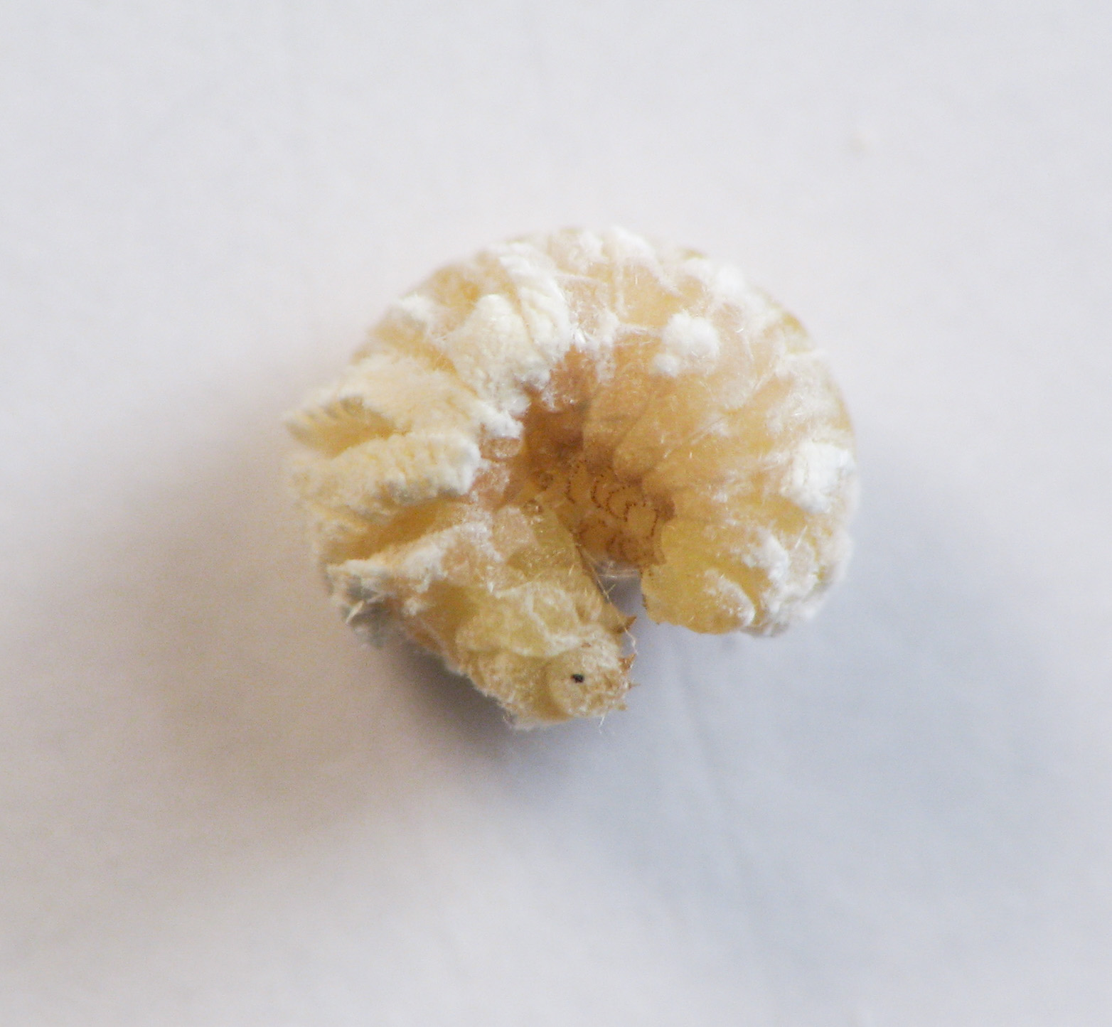 Larva of Fulgoraecia exigua (Planthopper Parasite Moth - Hodges#4701). Size: ~ 3 mm. Willow Grove, Montgomery County, Pennsylvania, USA.